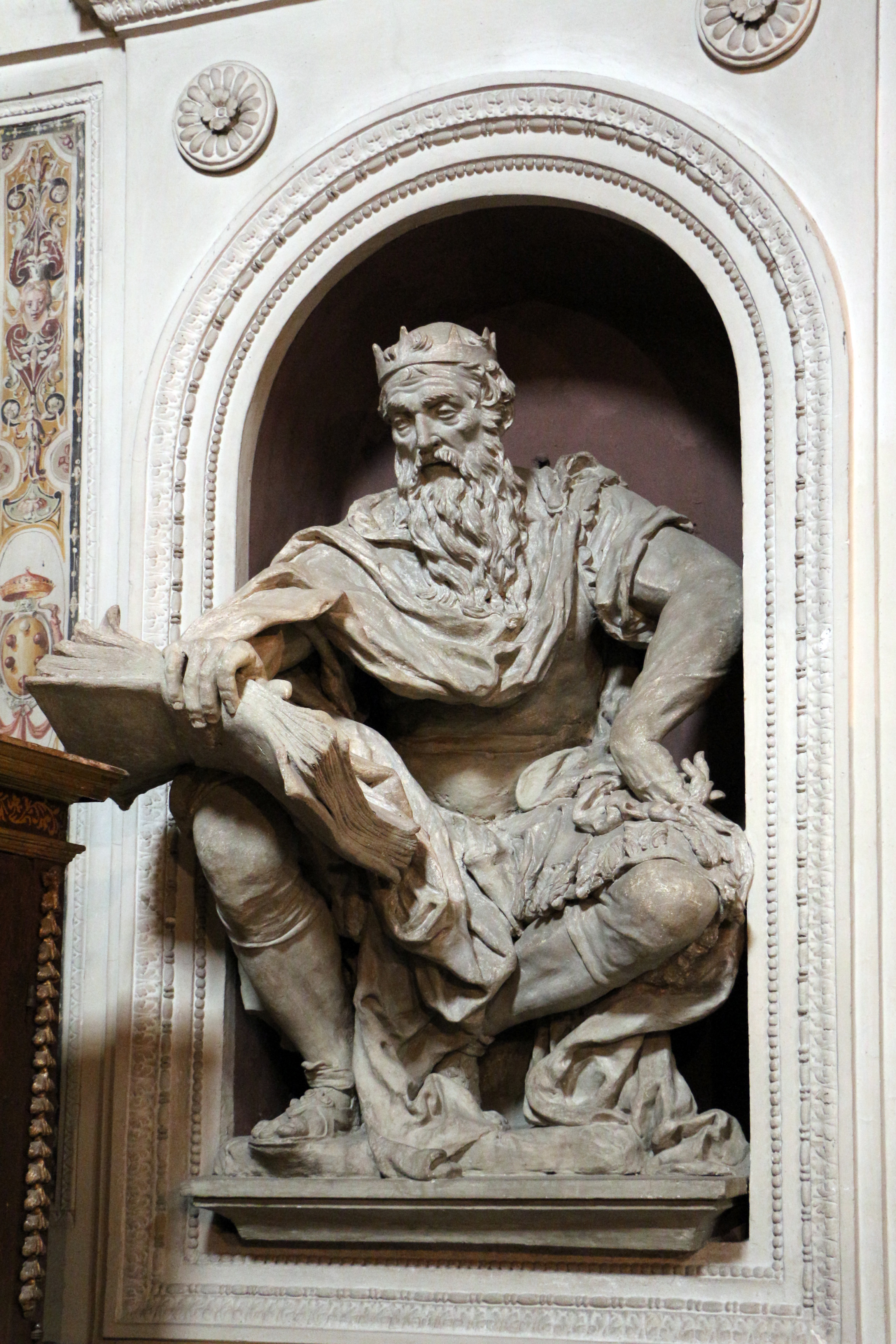 Cappella di San Luca (Florence)